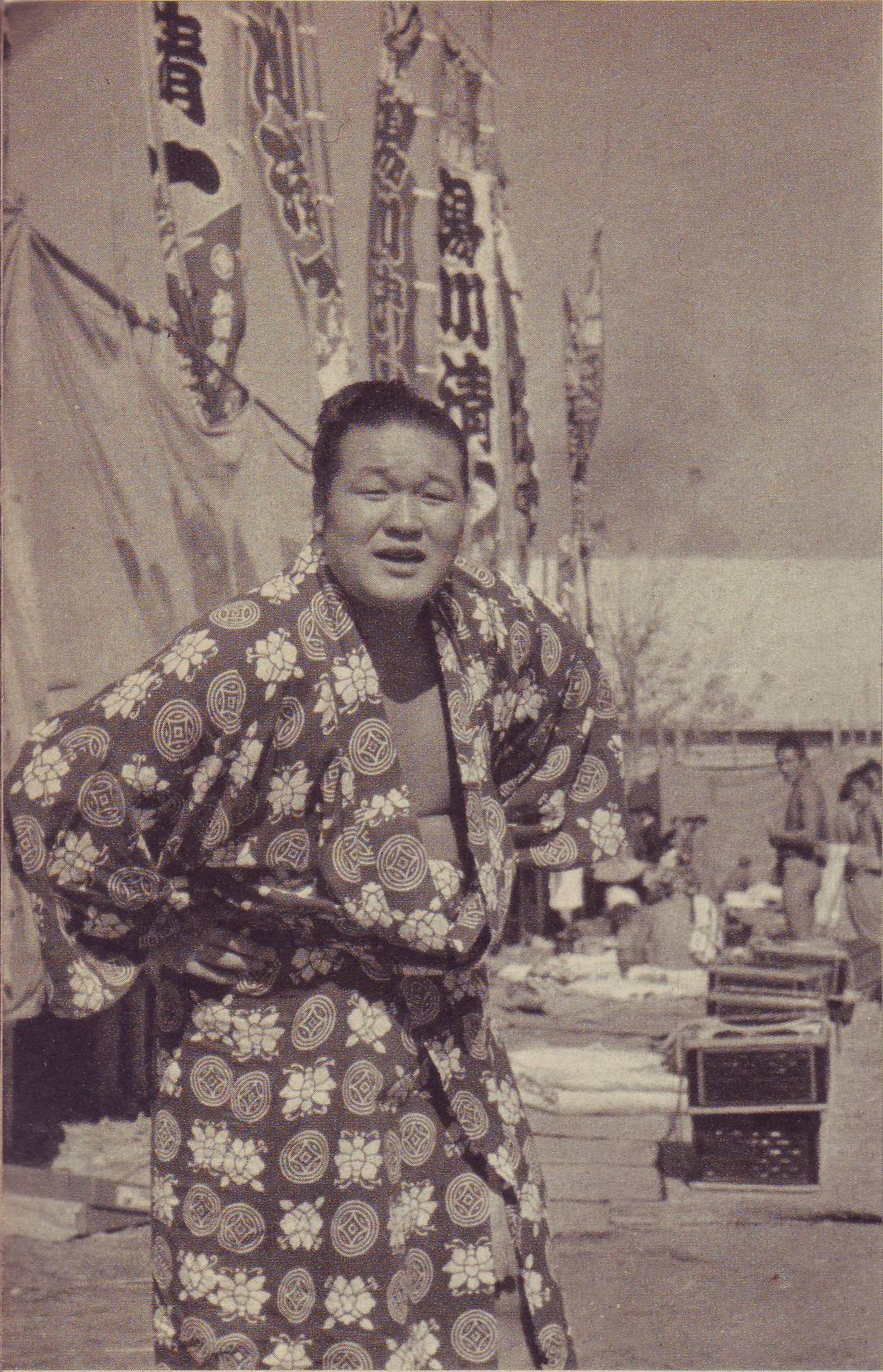 Oiteyama Hirokuni. taken in 1959, or before that.